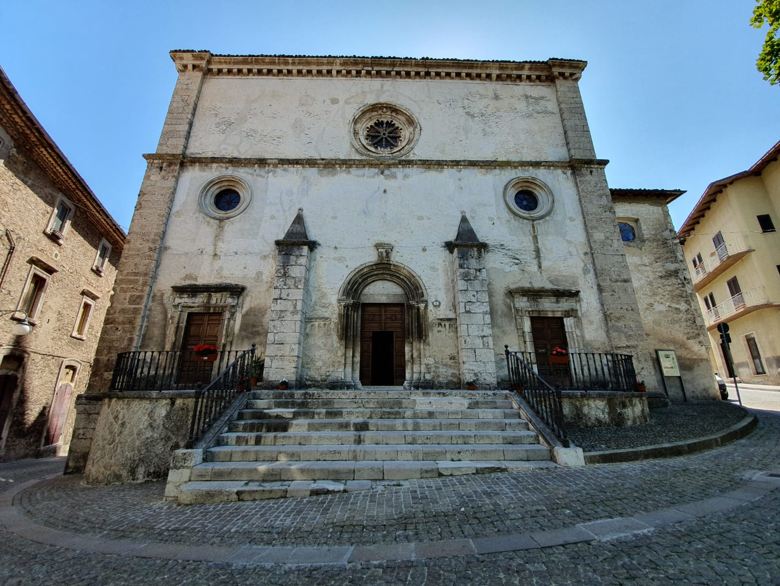 Facciata